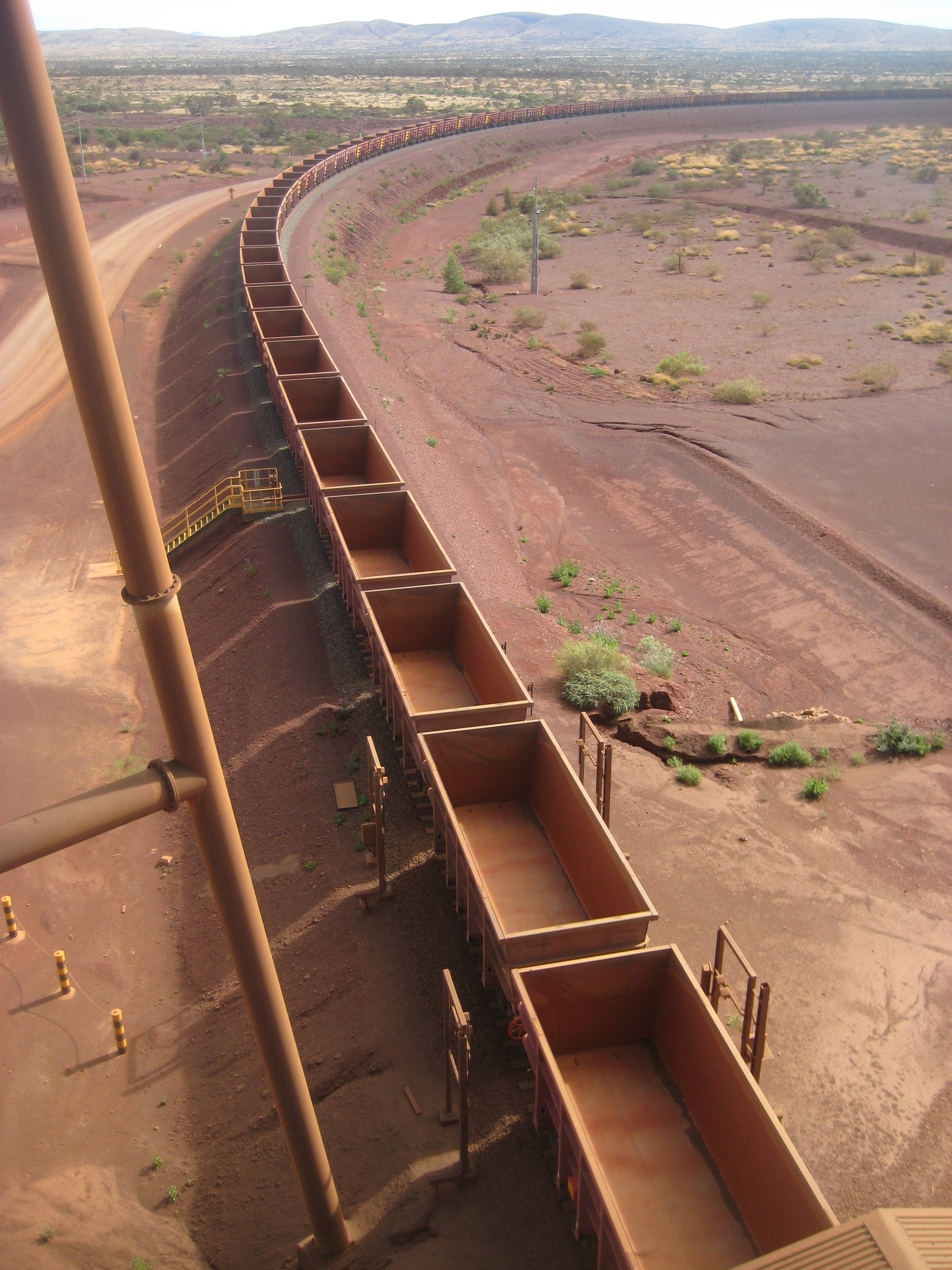 An iron ore train loading at the Brockman 4 mine, Western Australia. Empty rail cars are roling into the train load out to be loaded with approx. 110 tonnes of ore each.